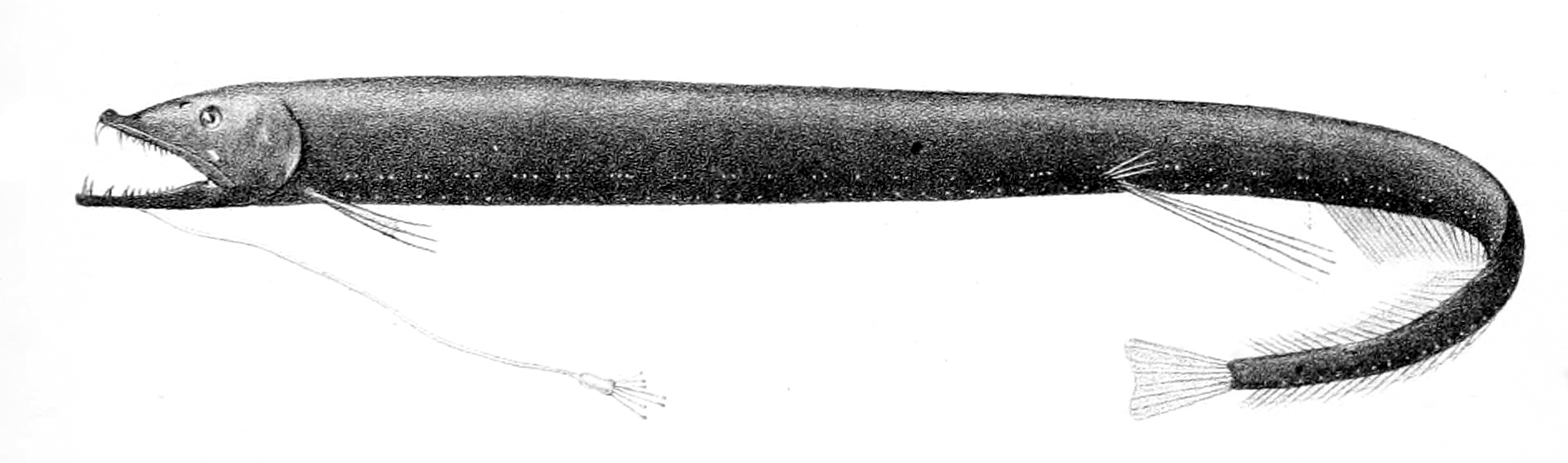 Eustomias obscurus